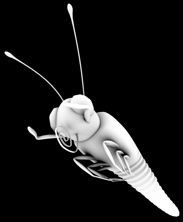 Ambient occlusion term rendered for an insect model.